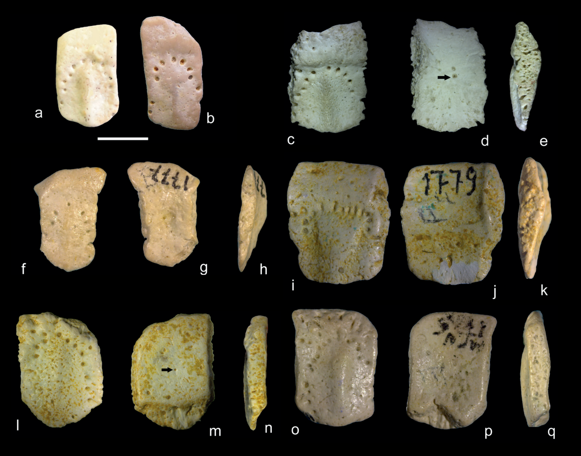 Riostegotherium, fossil osteoderms of of Riostegotherium yanei; Movable (a-k) and buckler (l-q) osteoderms, a) LMh 05 and b) UFrJ-DG 317M in external view; c-e) LMh06; f-g) MCN-PV 1777; i-k) MCN-PV 1779; l-n) MCt3932-M; o-q, MCN-PV 1775. Scale bar = 5 mm. c, f, i, l, o in external view; d, g, j, m, p in internal view; e, h, k, n, q in lateral view. Anterior to the top, dorsal to the left. Black arrows indicate foramina of the deep surface. Itaborai basin, Brazil, Palaeocene/Eocene